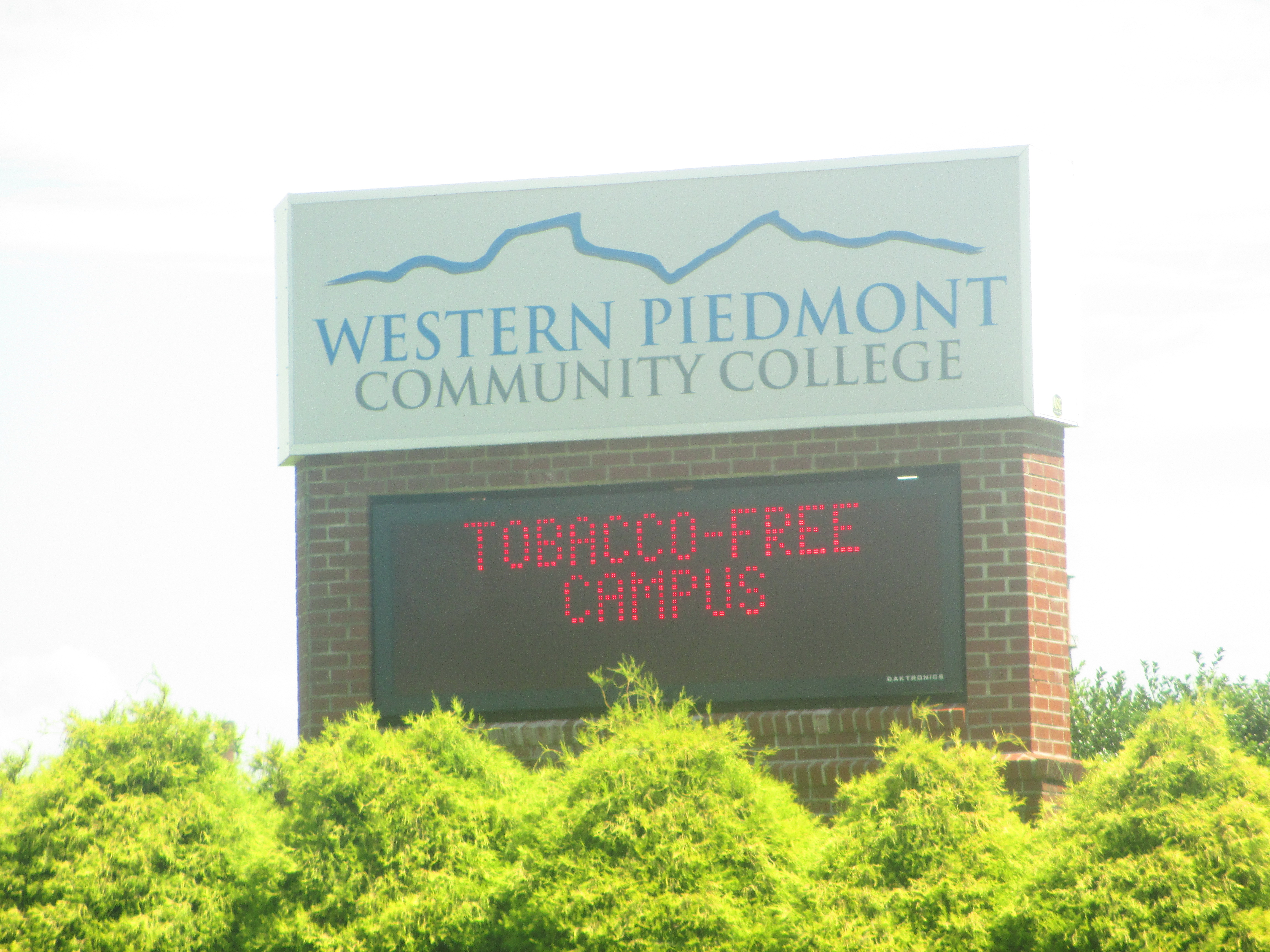 I took photo of Western Piedmont Community College entrance sign in Morganton, NC, with Canon camera.